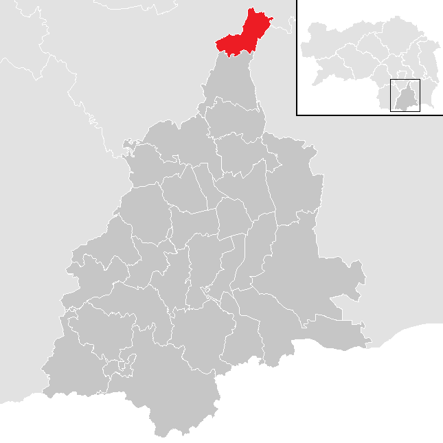 District Leibnitz